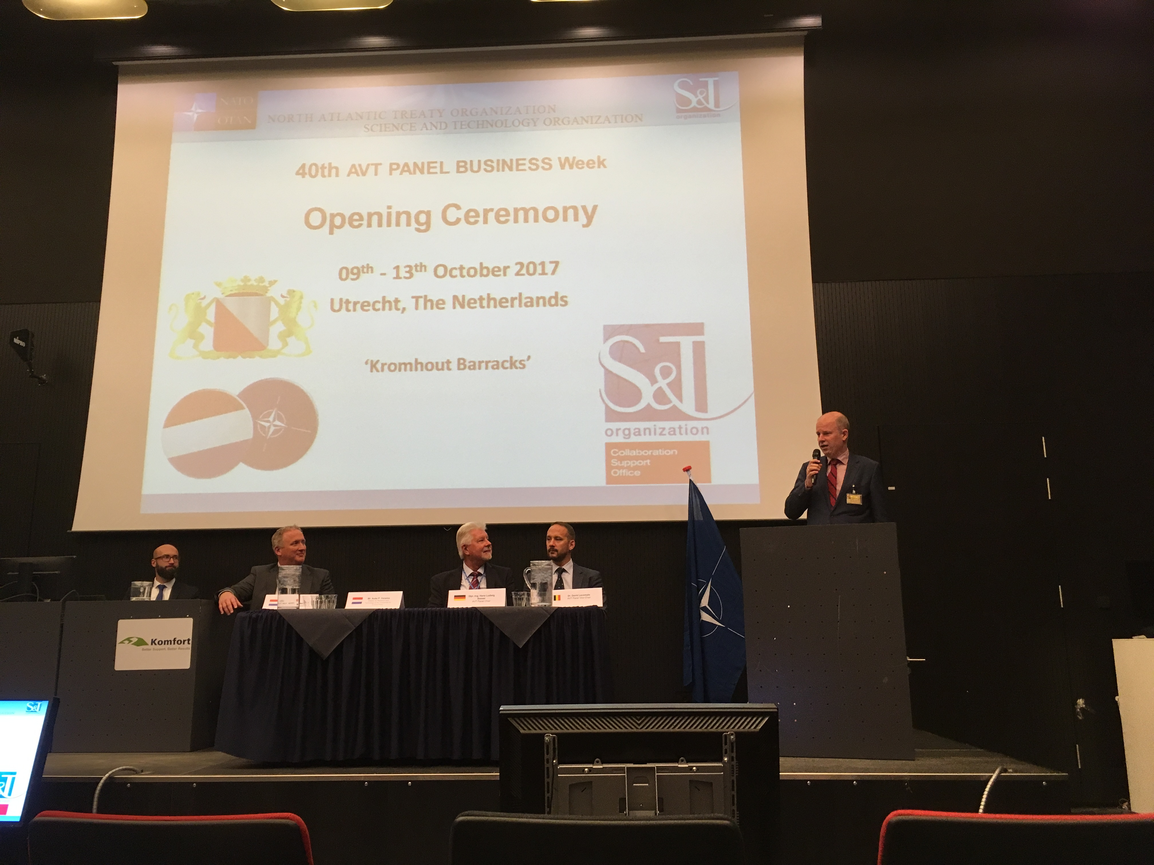 Opening Ceremony of 40th AVT Panel Business Week, 09 - 13 Ocober, 1917, Utrecht, The Netherlands